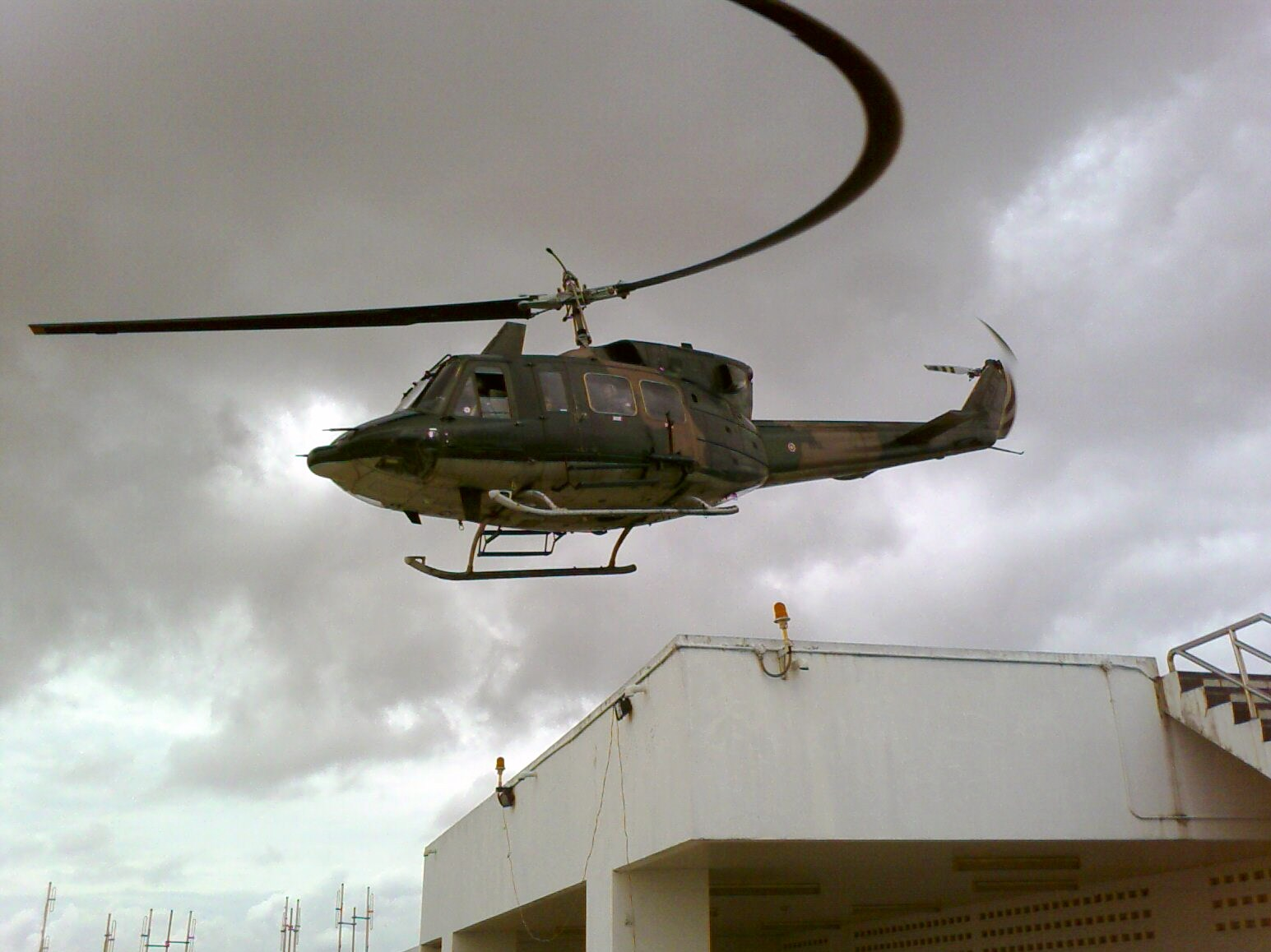 A Royal Thai Armed Forces helicopter lifting off from the roof helipad of Hat Yai Hospital during the 2010 Thai floods. Helicopters were used to transfer critical patients as the hospital's emergency power supplies failed, and delivered food and water supplies to the several hundred people stranded at the hospital. Note the skewing motion effect caused by rolling shutter.